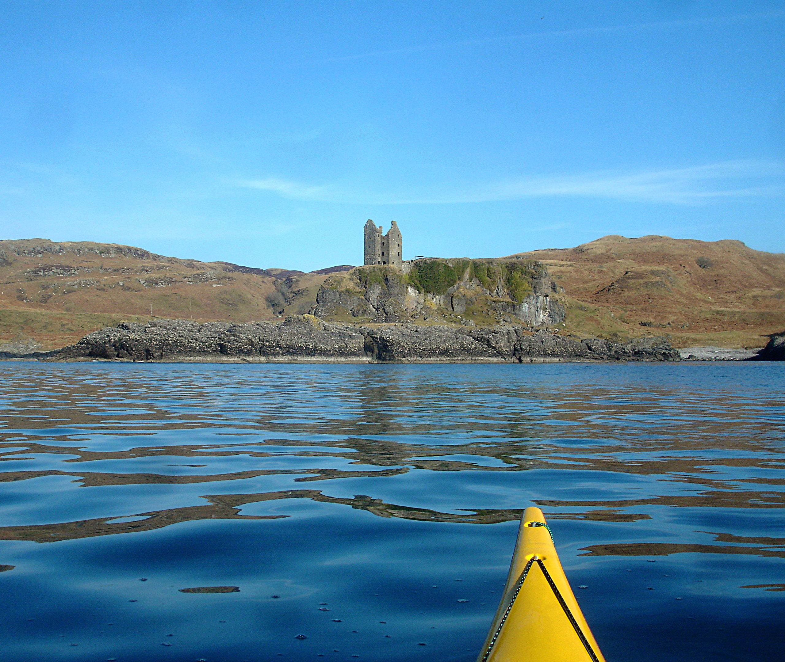 Gylen Castle A sixteenth century castle that presents a forbidding appearance to any attacker coming from the sea, the main method of transport at the time. However, it almost inevitably proved vulnerable to siege and the Royalists surrendered to the covenanters on a false promise of clemency. The castle was torched and the defenders slaughtered.